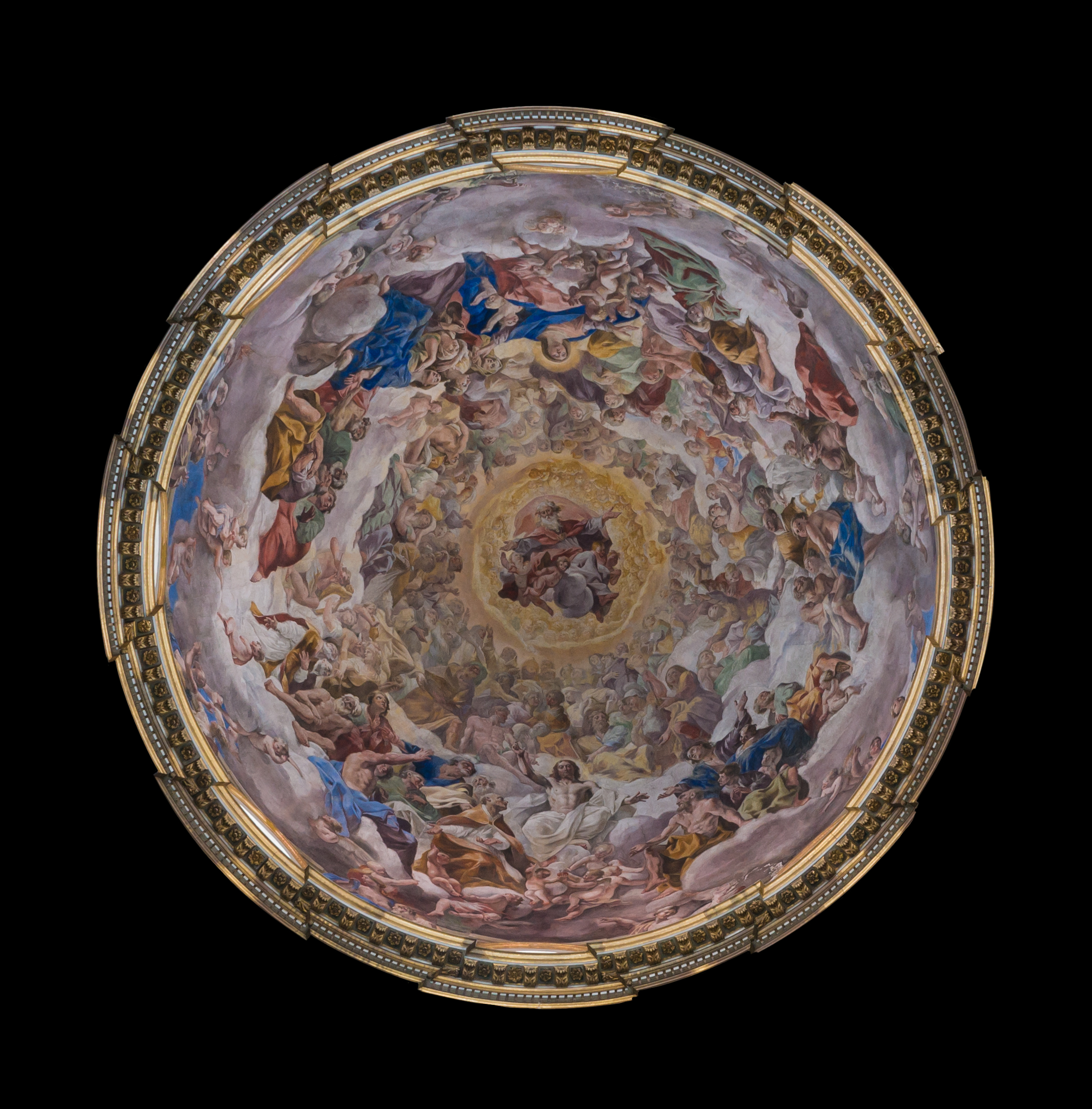 The Paradise, by Giovanni Lanfranco, cupola of Chapel San Gennaro, Cathedral of Naples, Italy.